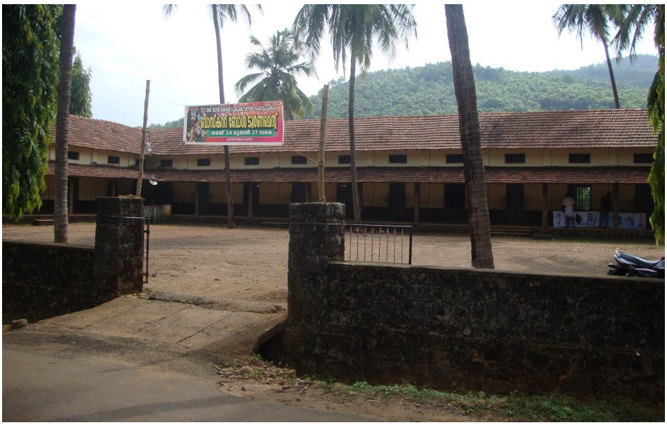 LITTLE FLOWER HIGH SCHOOL CHANDANAKAMPARA